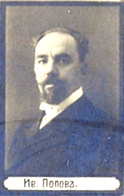 The portrait of the Bulgarian actor Ivan Popov, cropped from a postcard of the Bulgarian National Theatre "Ivan Vazov"